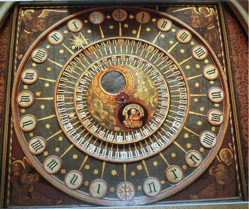 Astronomical clock of Wells Cathedral